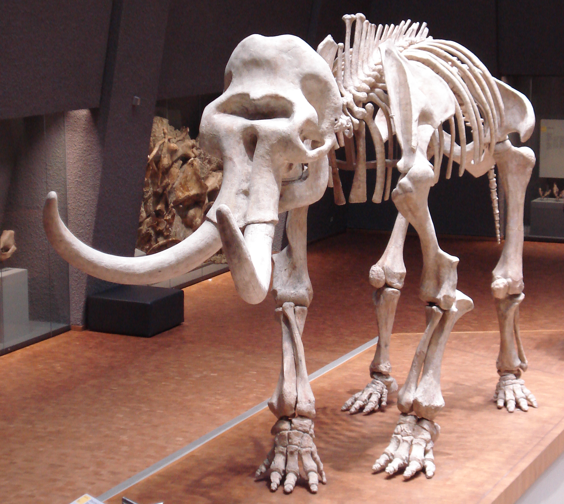 Cast of a primitive Mammuthus primigenius fraasi skeleton from Steinheim an der Murr, an intermediate form between Mammuthus trogontherii and Mammuthus primigenius